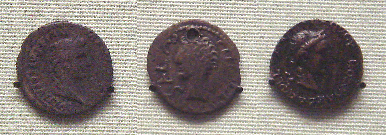 Silver_denarius_of_Tiberius_14CE_37CE_found_in_India_Indian_copy_of_a_the_same_1st_century_CE_Coin_of_Kushan_king_Kujula_Kadphises_copying_a_coin_of_Augustus.